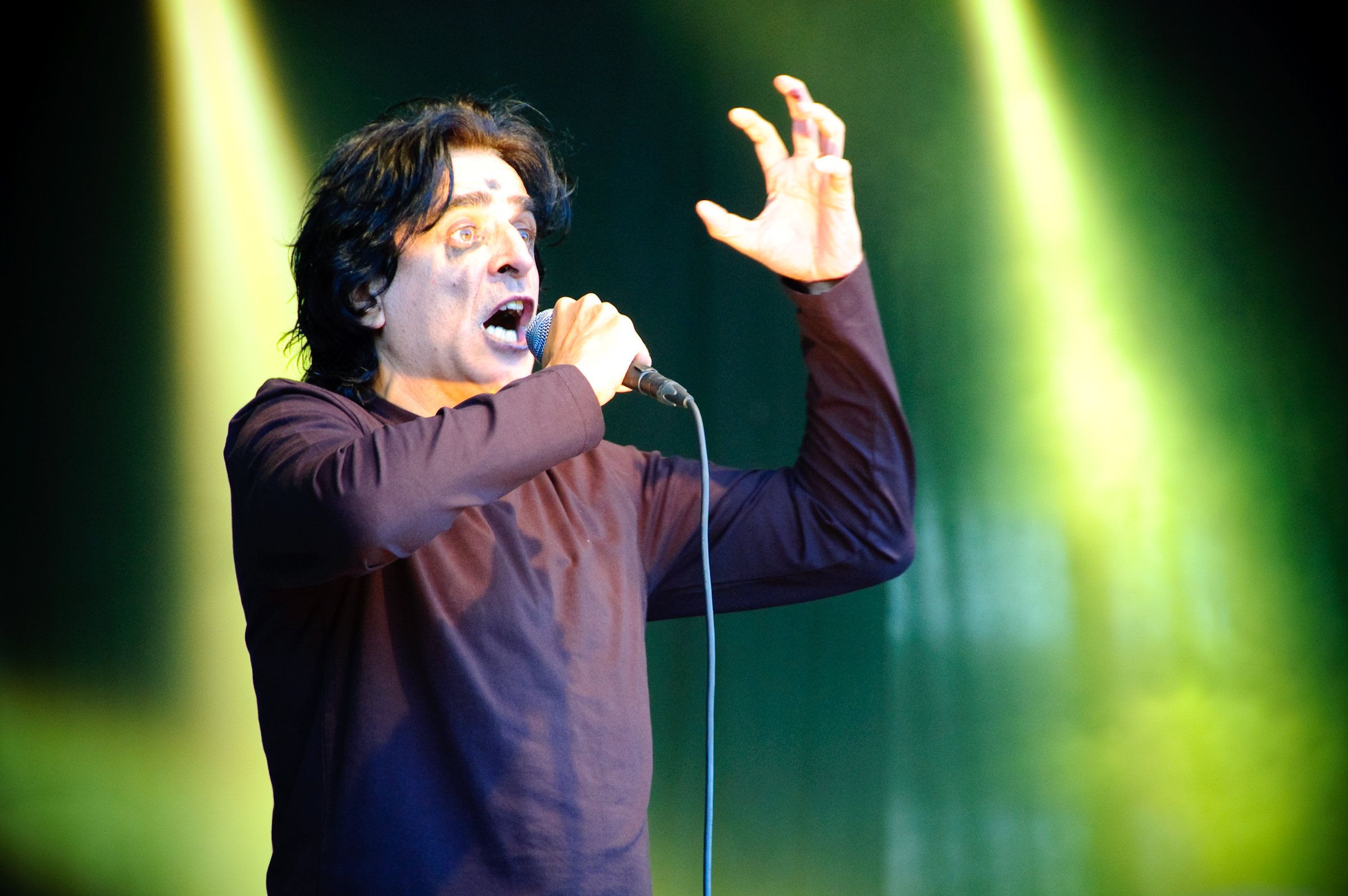 Vocalist Jaz Coleman of Killing Joke performing at the Ilosaarirock festival in Joensuu, Finland.